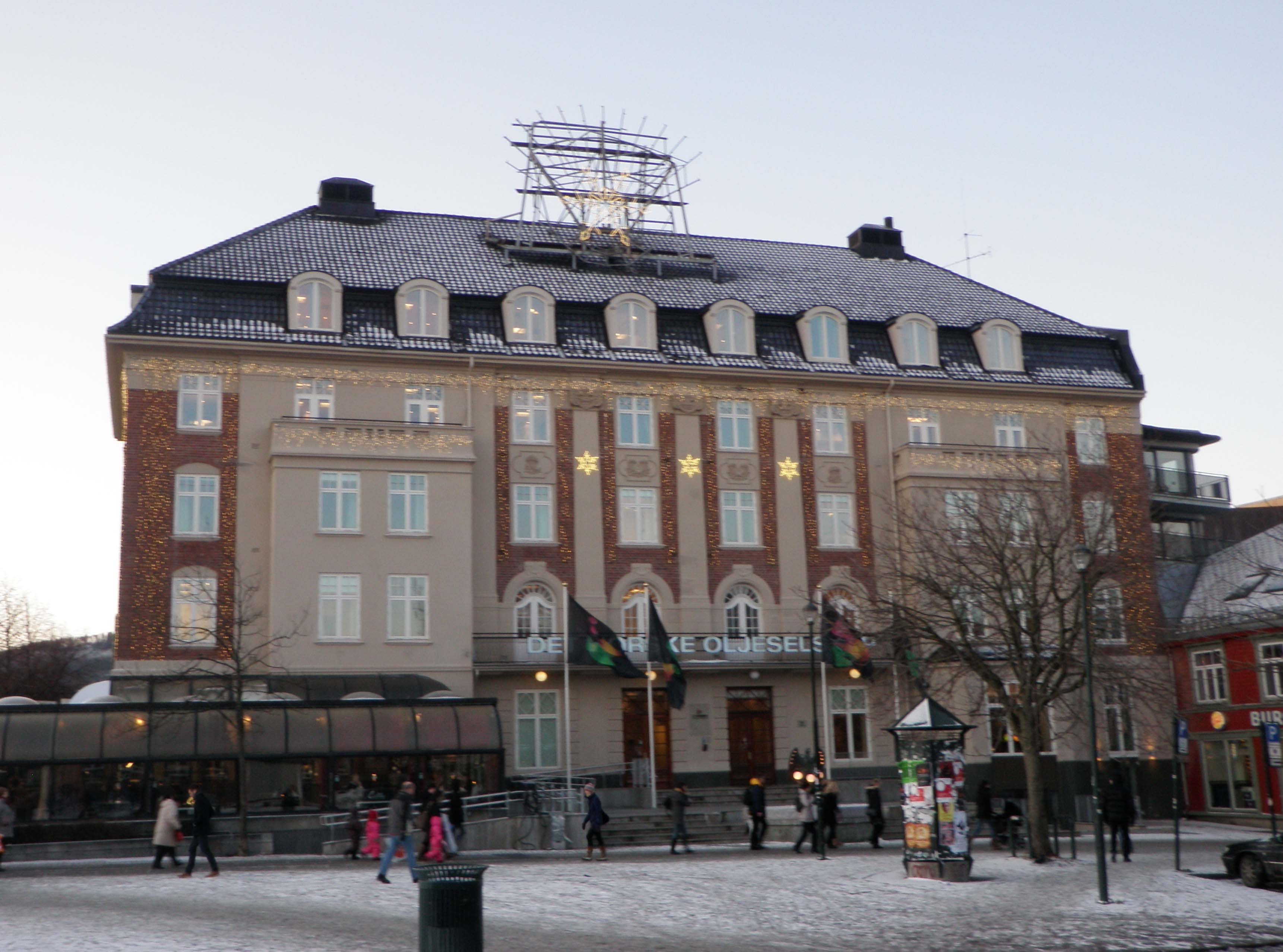 The headquarters of the Norwegian oil company Det Norske Oljeselskap in Trondheim, Norway. The building is the former Hotell Føniks.